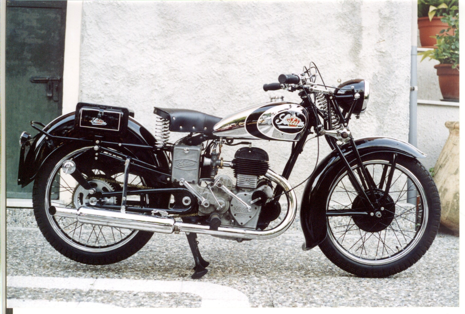 Sertum 250 VL 1937